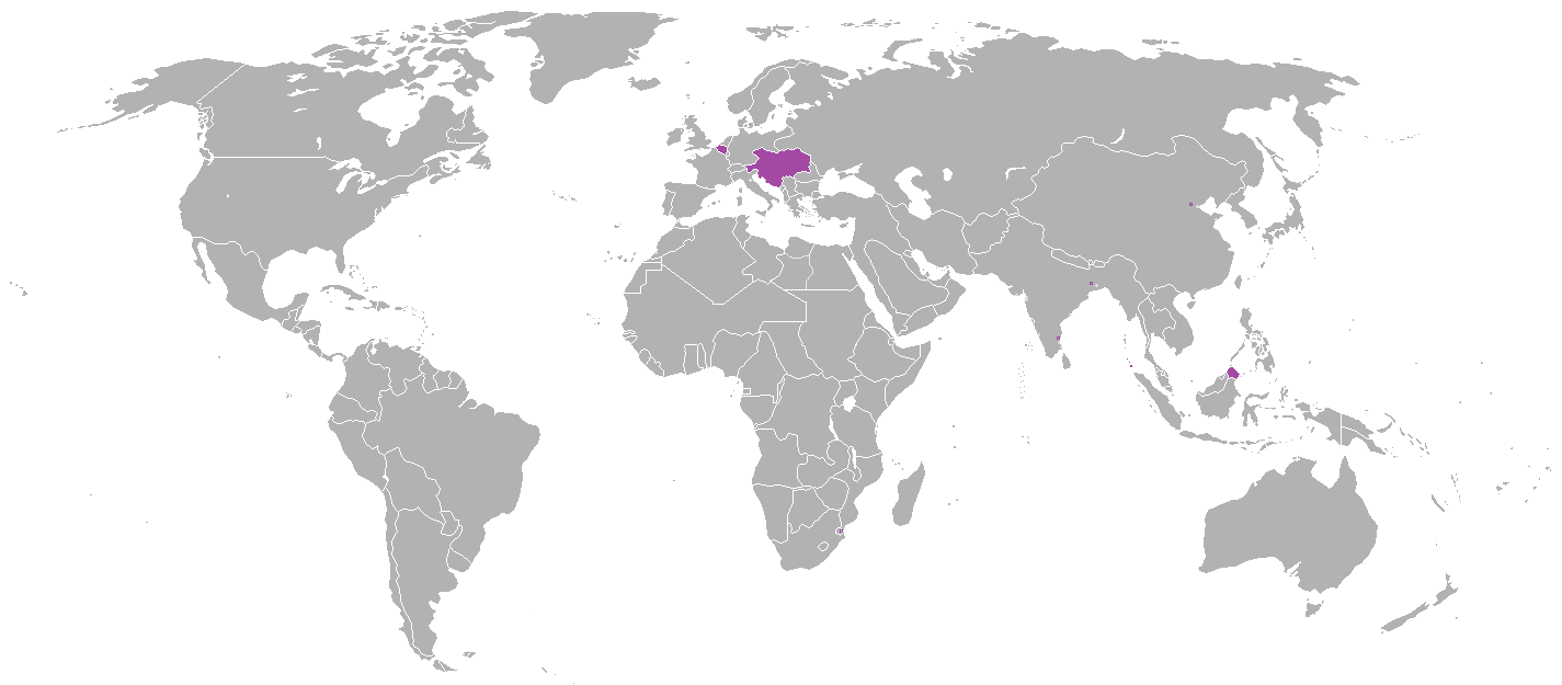 Austrian (Habsburg) colonies and concessions throughout history.